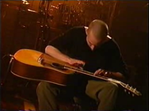 Capture d'écran (vignette) de Media:Erik Mongrain-AirTap.ogg.